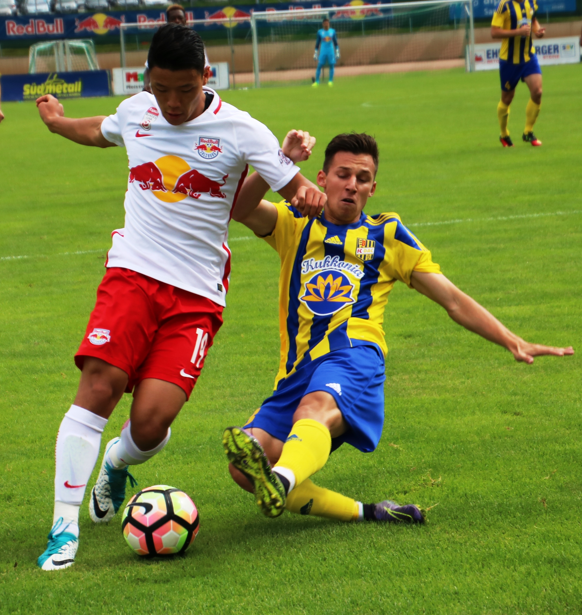 pre season match